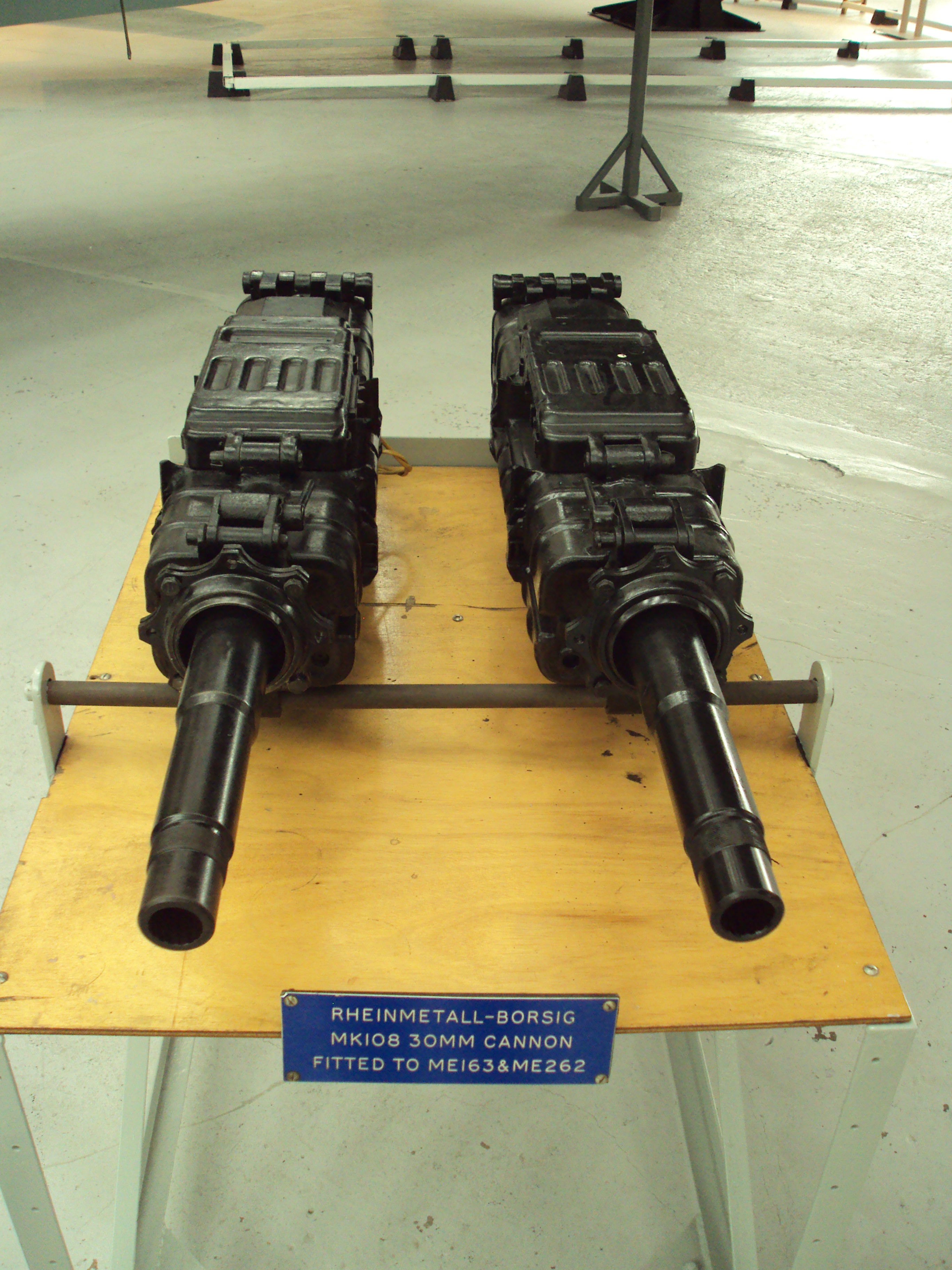 Rheinmetall-Borsig MK 108 30mm cannons. Photo taken at the RAF Museum Cosford, Shropshire, England.